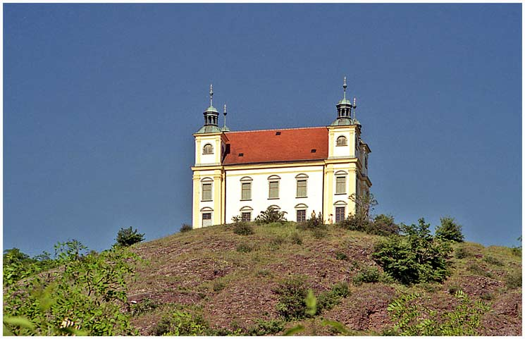 Moravský krumlov - pilgrimage church of St Florian.